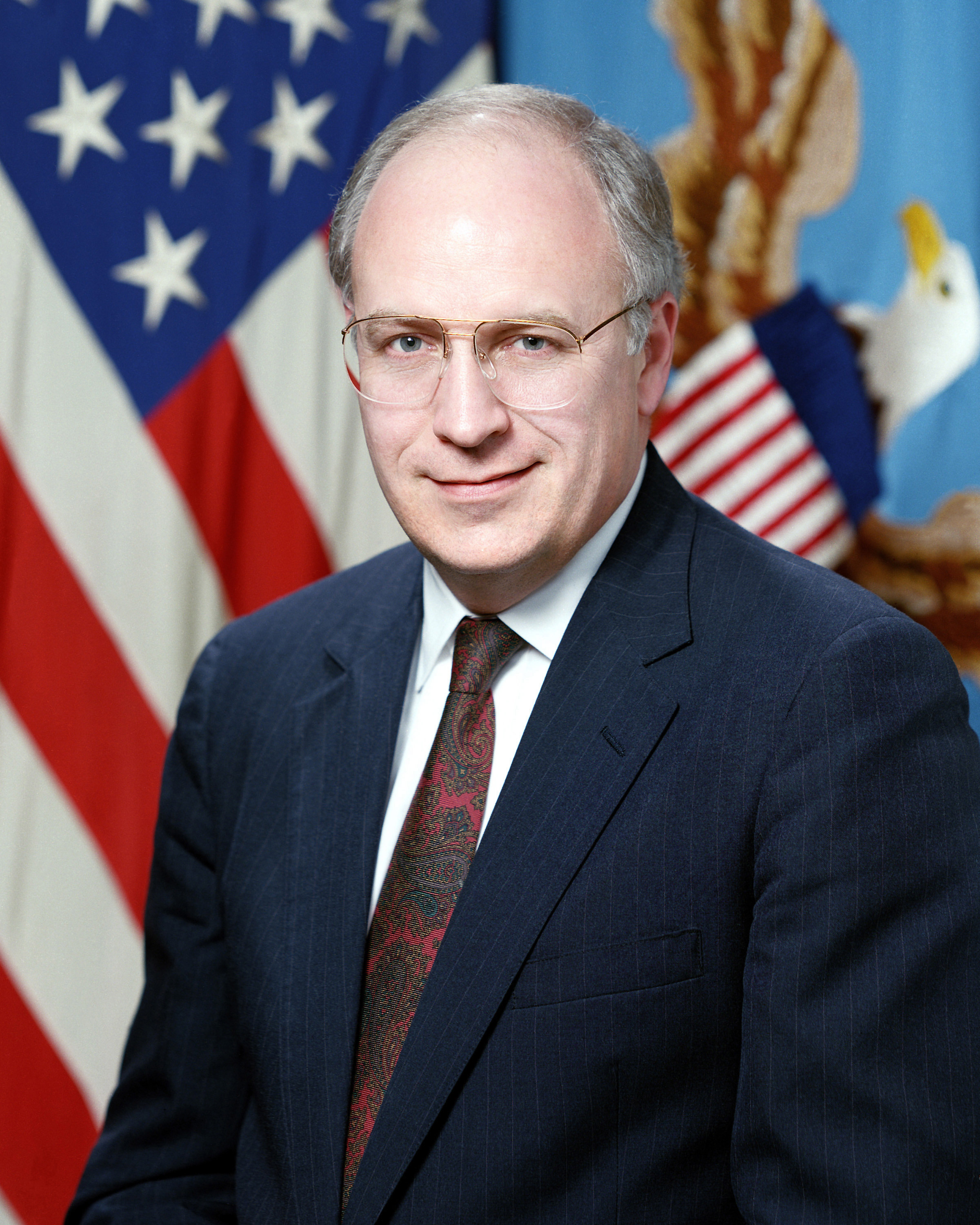 Official portrait of Secretary of Defense Richard B. Cheney, who would later become vice president.